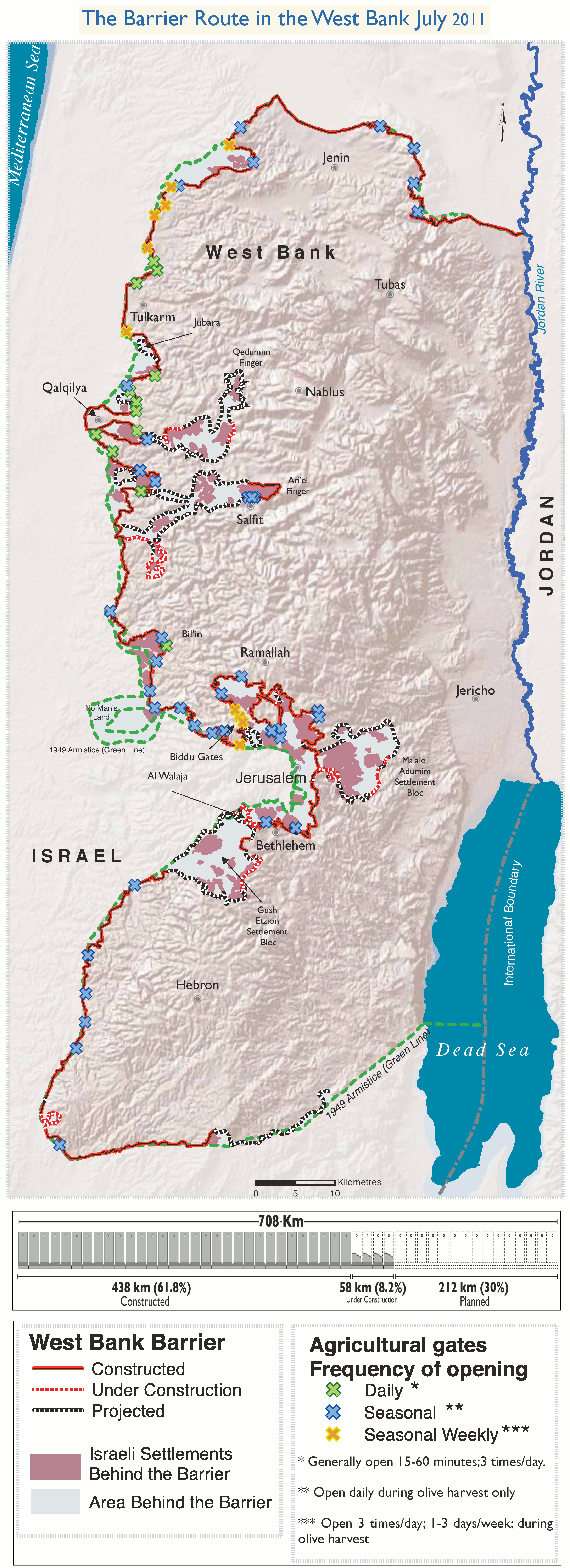 The Israeli West Bank barrier as of July 2011. The planned route, the part already completed, the part under construction as well as the Wall Gates where Palestinian access is controled by the Israeli army.